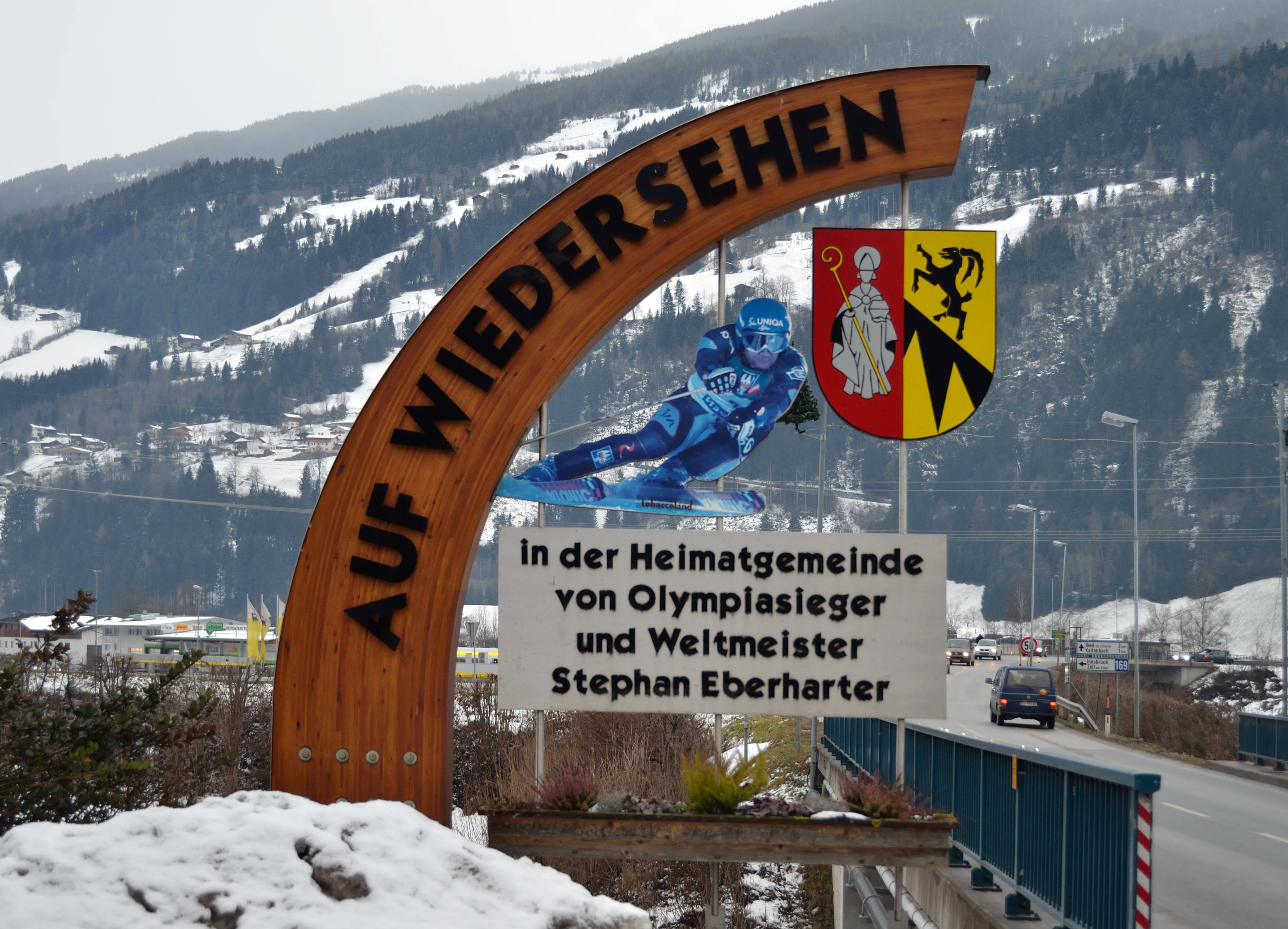 City limit of Stumm im Zillertal, Tyrol, with coat of arms and hint to the most famous son of the municipality, Stephan Eberharter.